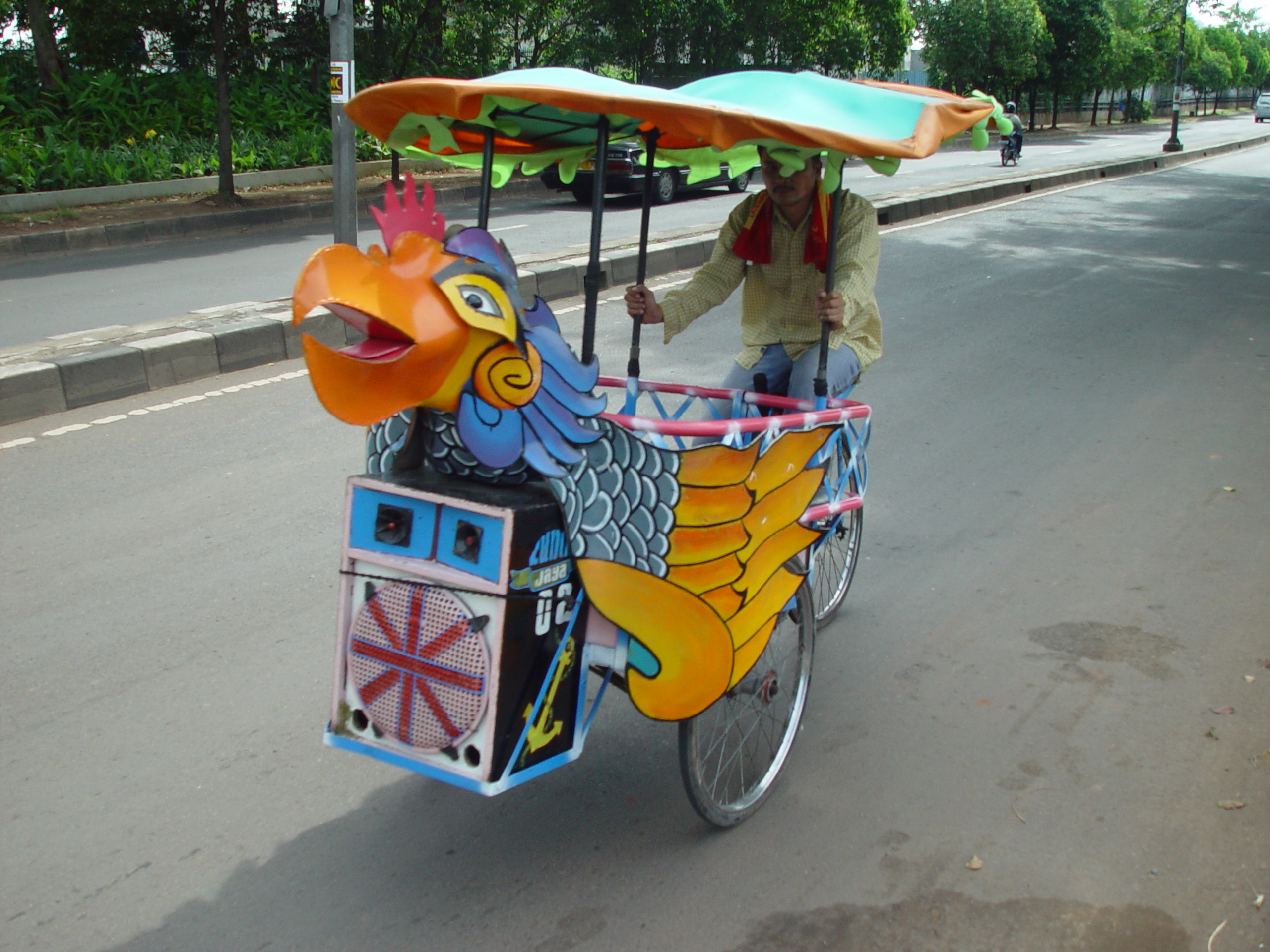 Amusement bike ride vehicle (odong-odong), North Jakarta Indonesia.